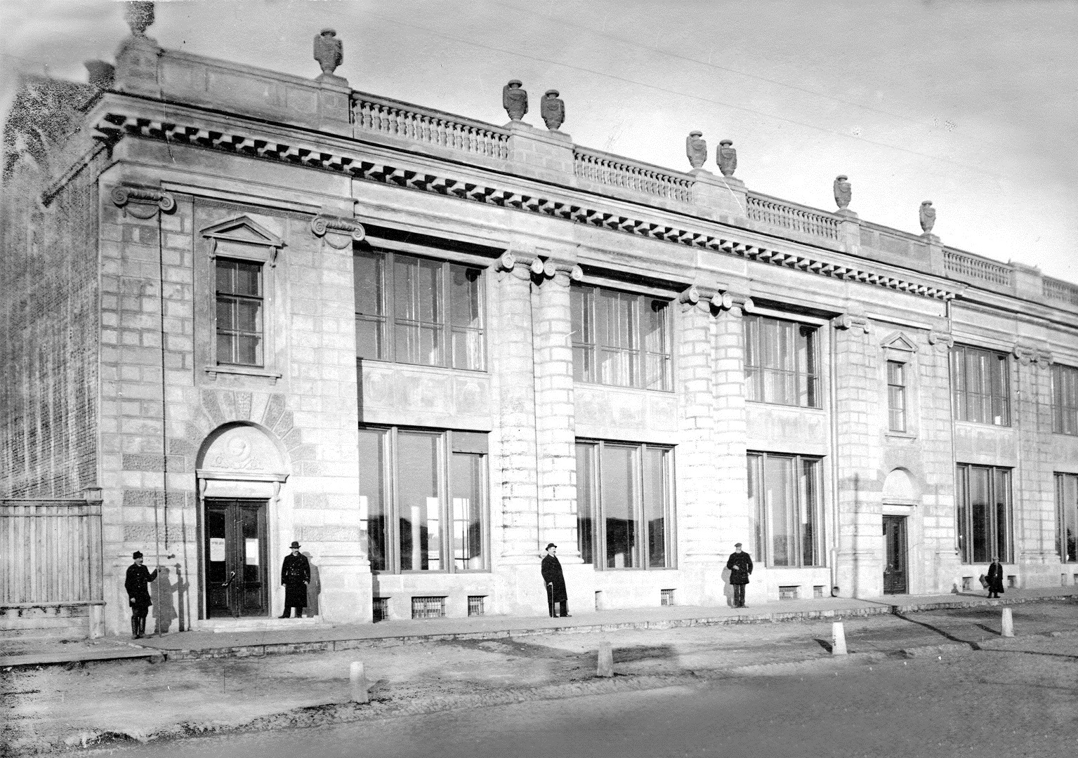 Novonikolayevsk branch of Bogorodsko-Glukhovskaya Manufactory, Russian Empire.